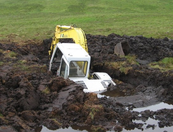 An excavator half-submerged in a large hole that it dug before falling in. A peat bog near Locherben, Dumfries and Galloway, Scotland.